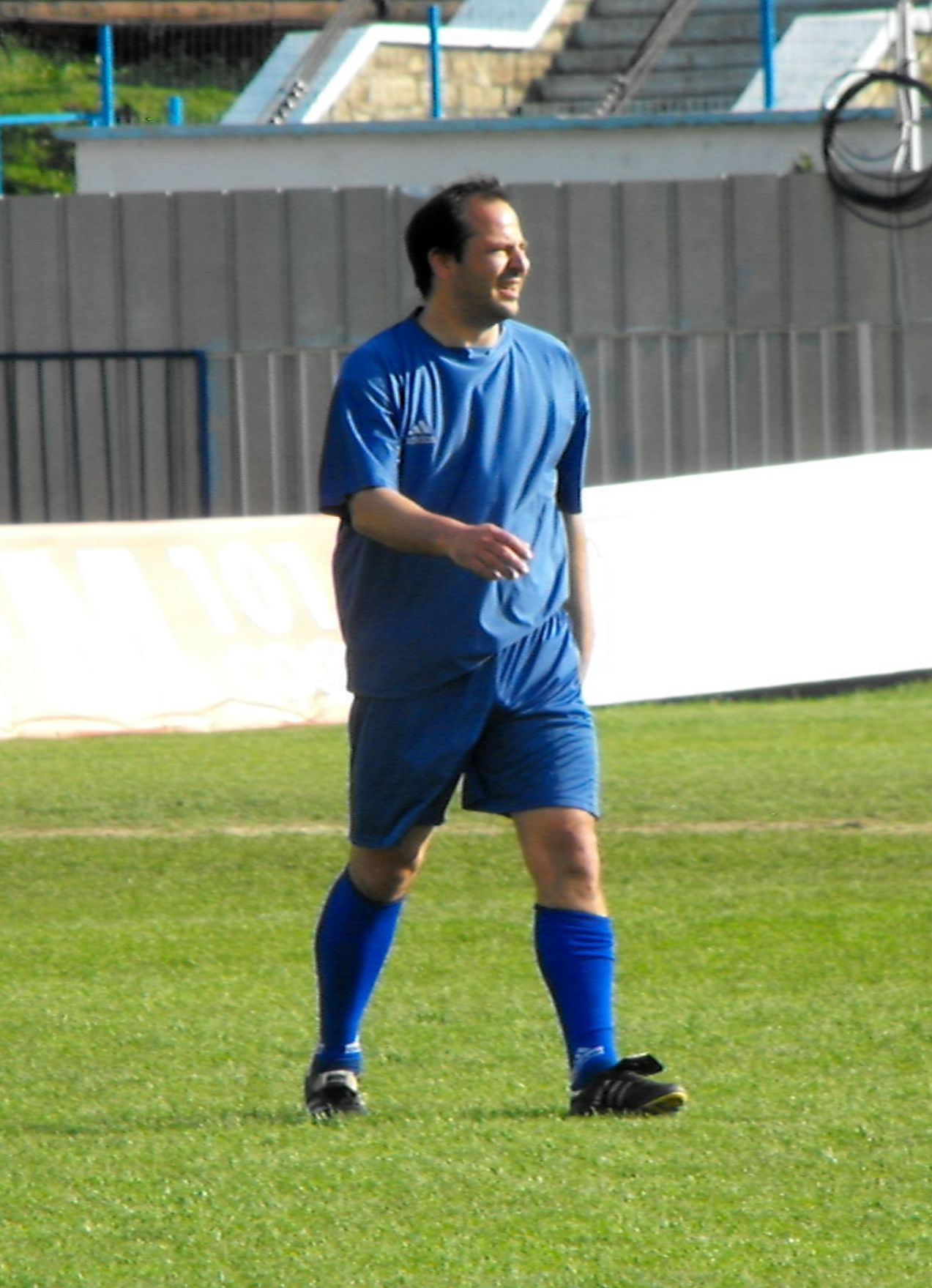 Martin Zafirov - former football player